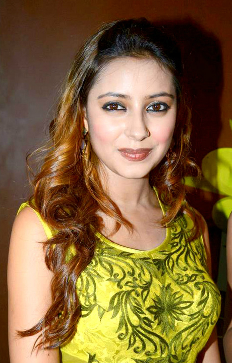 Pratyusha Banerjee at her birthday bash